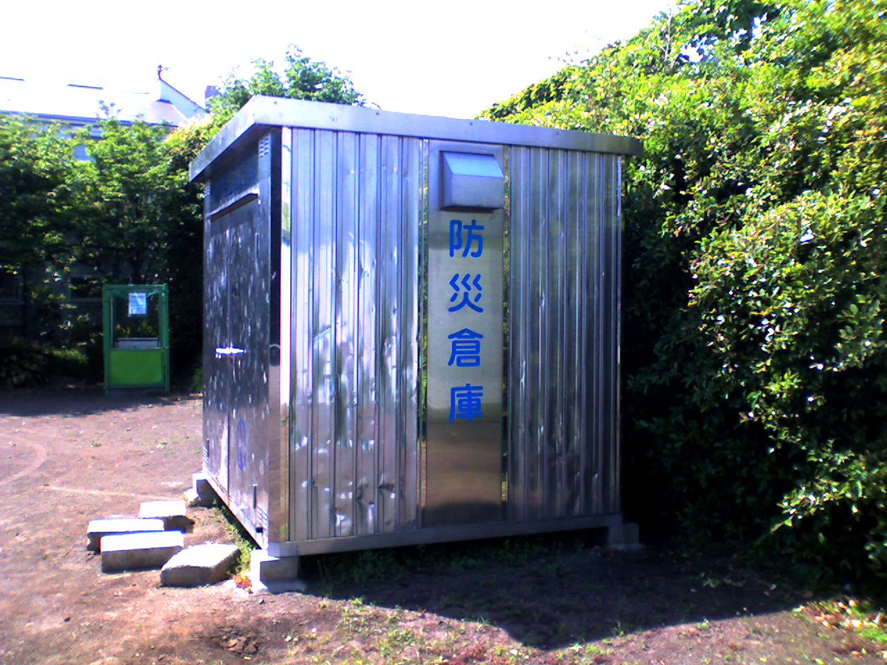 Emergency_Storehouse